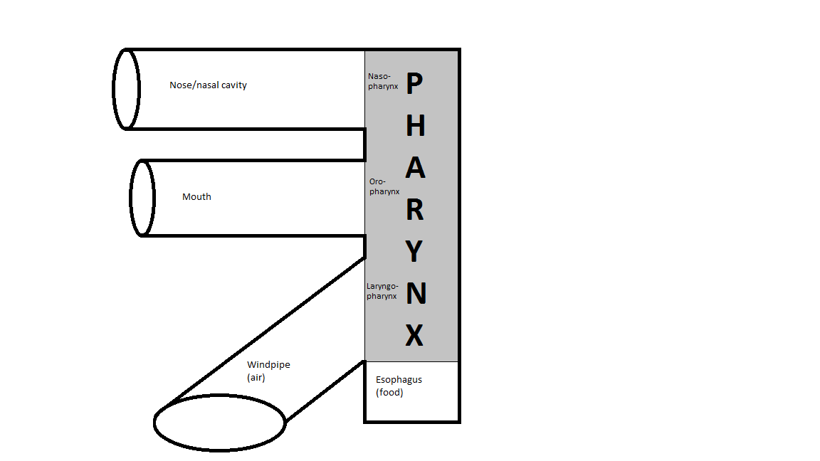 Simplification of pharynx and its parts